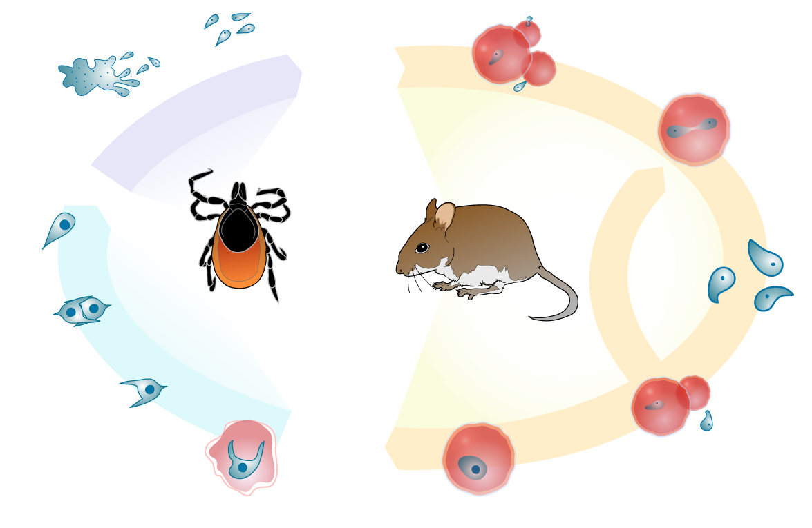 PNG without labels from:Image:Babesia microti life cycle en.svg.Life cycle of the Parasite Babesia, (B.microti / B.divergens)